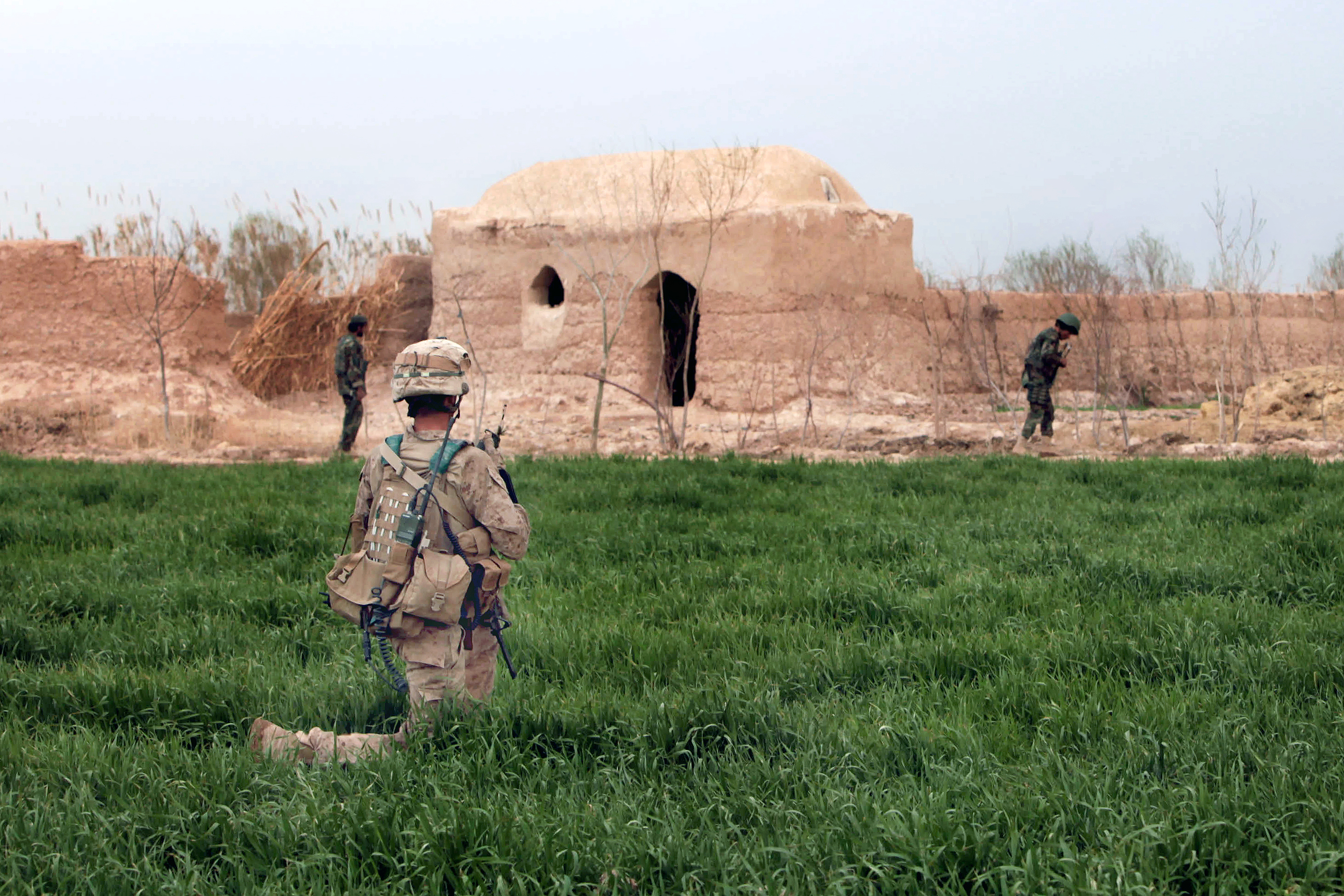 U.S. Marines and Afghan soldiers conduct a patrol near Marja, Afghanistan, Feb. 21, 2010. The Marines are assigned to Charlie Company, 1st Battalion, 3rd Marine Regiment